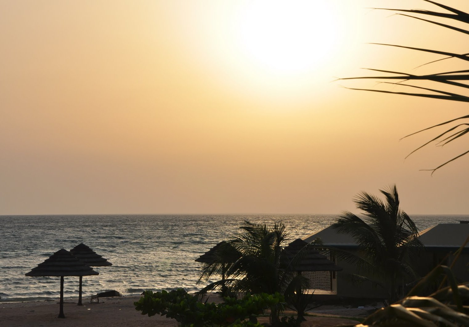 sunset view from Farasan Island in the Red Sea - Saudi Arabia, Jazan